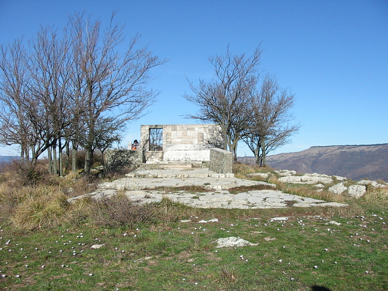 tomb